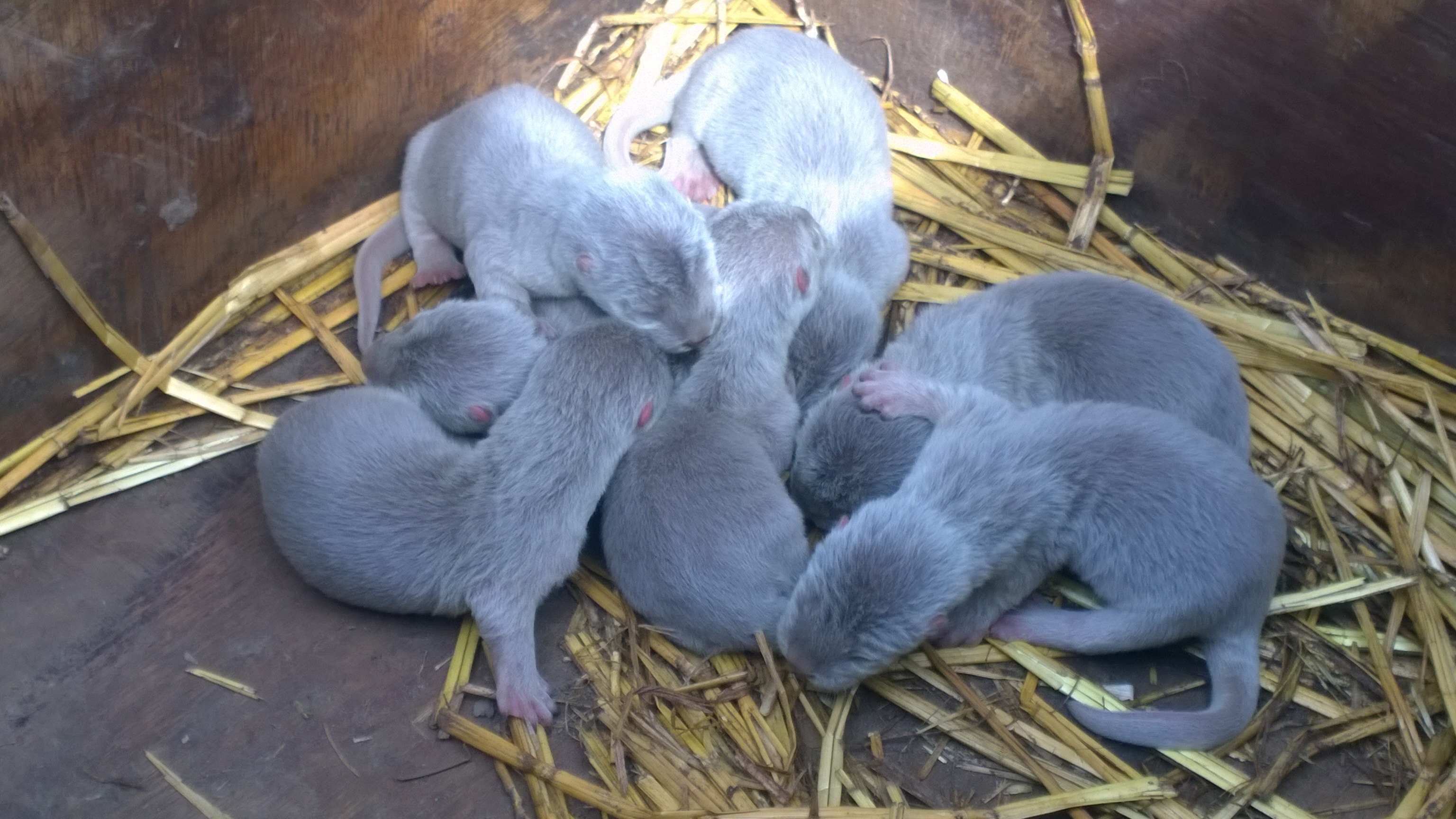 Smooth Coated Otter Babies at Wingham Wildlife Park